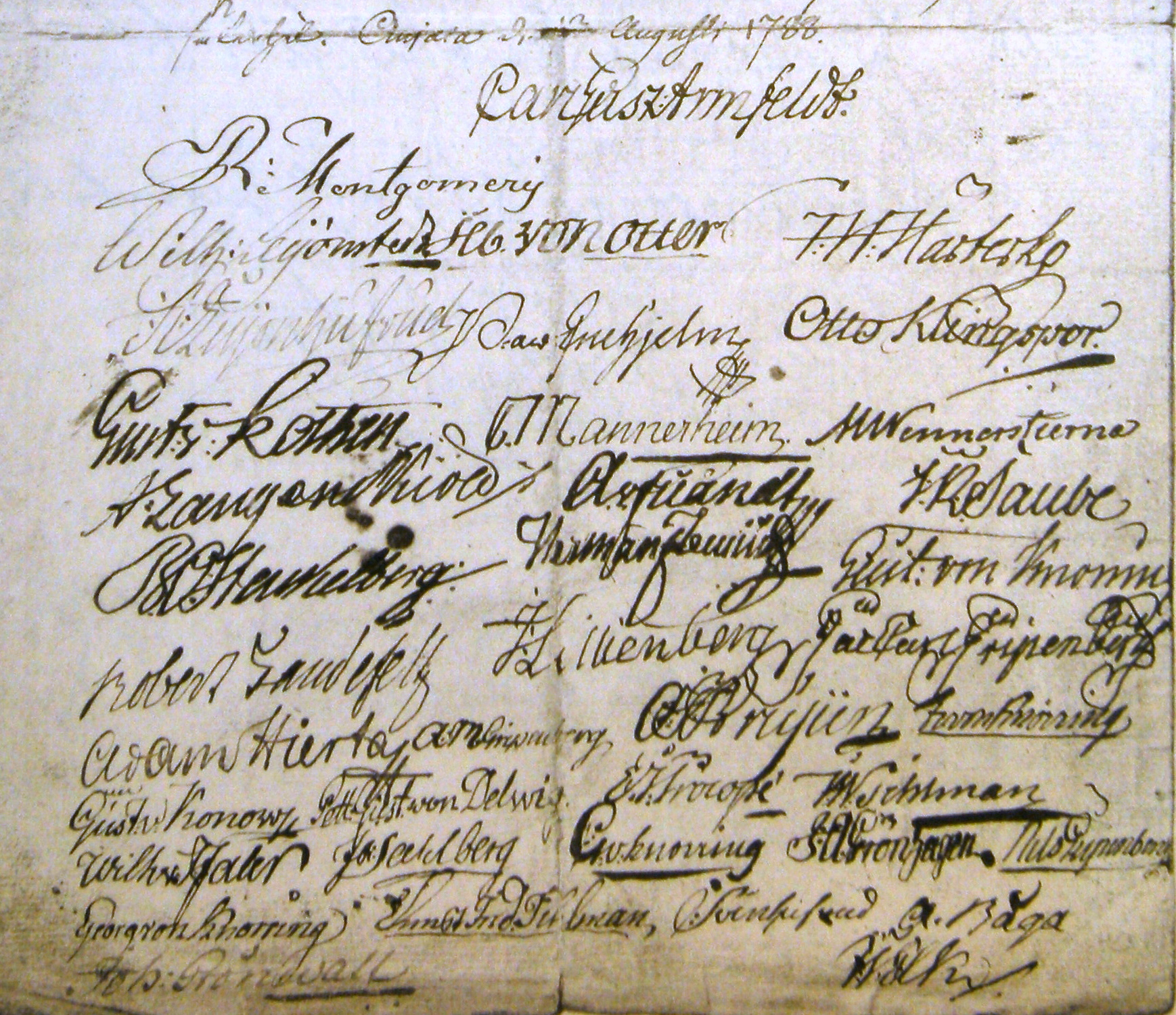 Signatures of some of the officers participating in the Anjala-conspiracy